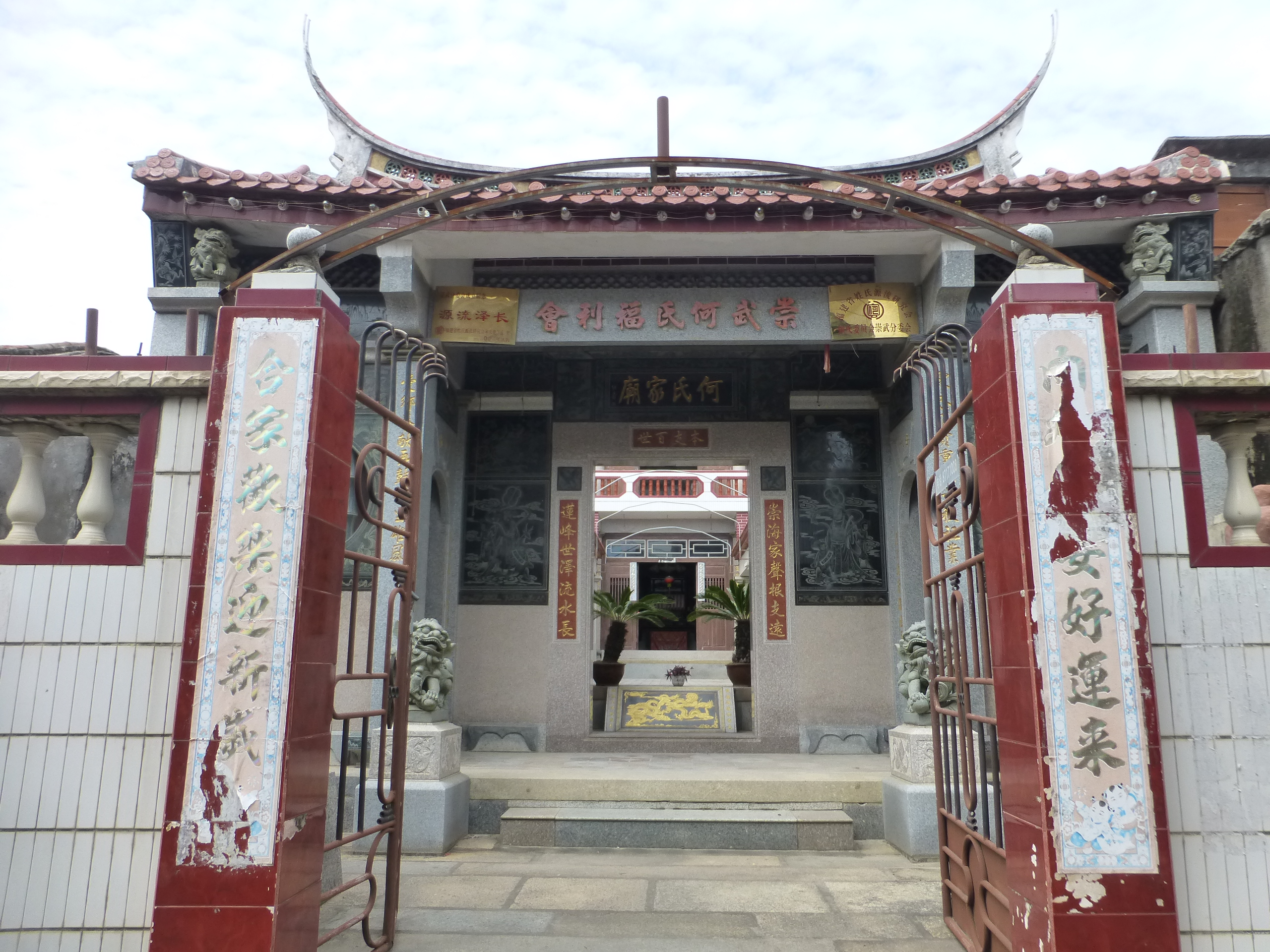 The He Family Beneficial Association of Chongwu, inside the walled city of Chongwu (Chongwu Cheng)